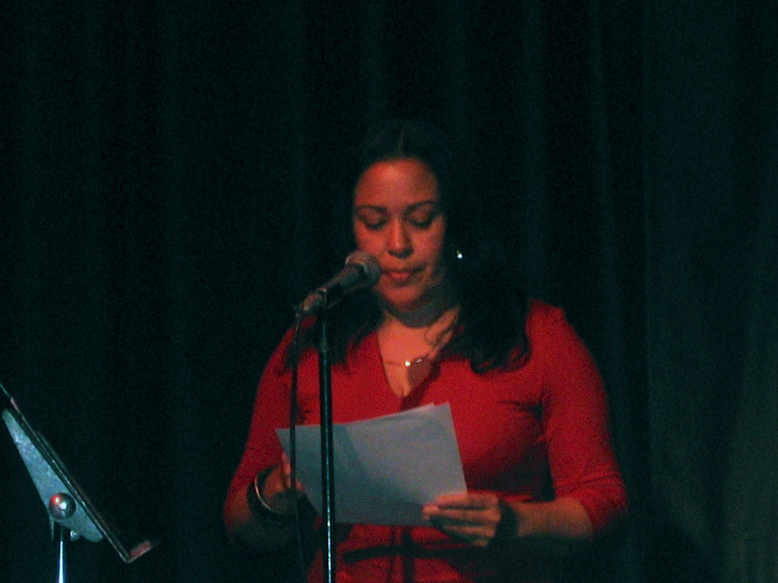 Nancy Mercado reading in the Nuyorican Poets Café, New York City, 2008.